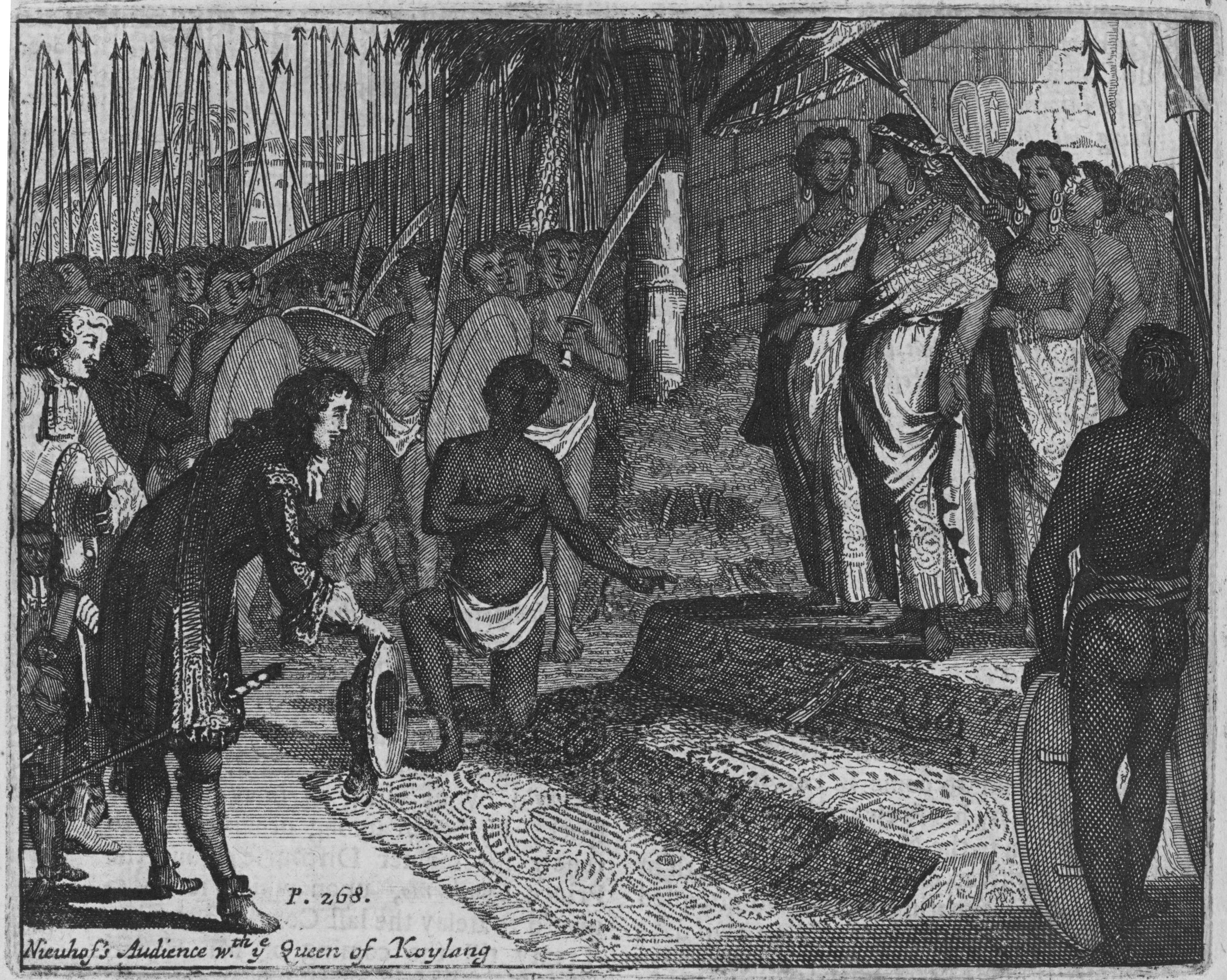 This plate shows Johan Nieuhof visiting the Queen of Kollam, India